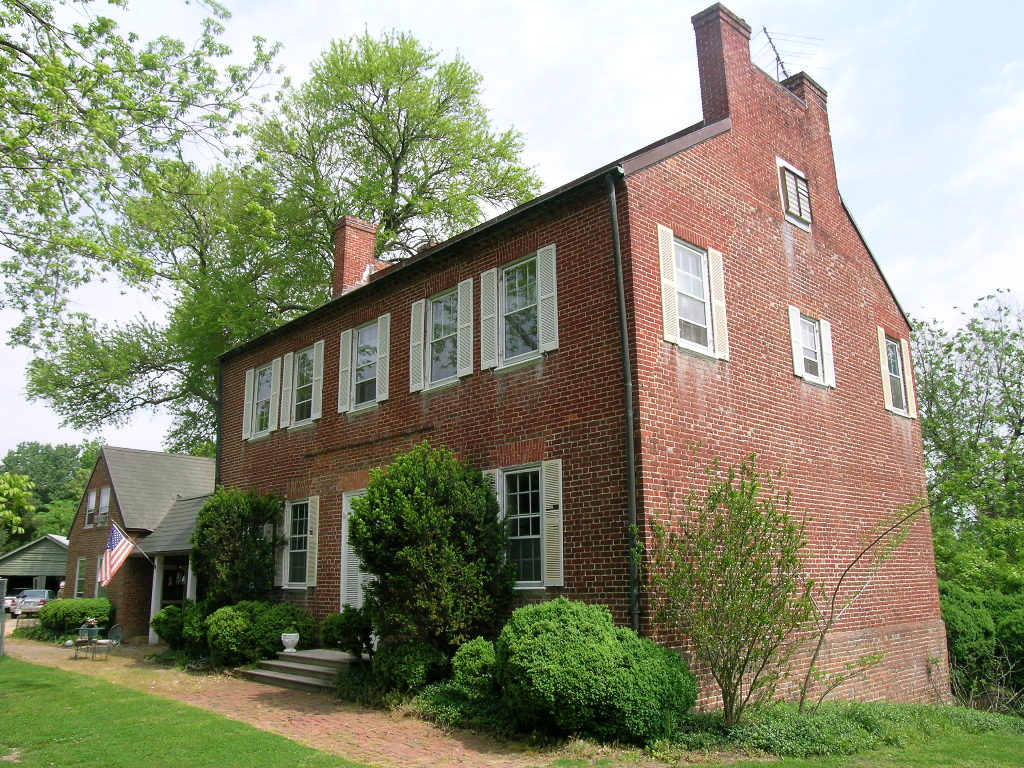 An image of Araby, the home of William and Sarah Eilbeck. Built in the mid-1700s. Their daughter Anne and her husband George Mason later lived at Araby. George Washington is known to have visited frequently. Incorporates both Flemish and English bond bricks. Subject to renovations in mid-1800s.